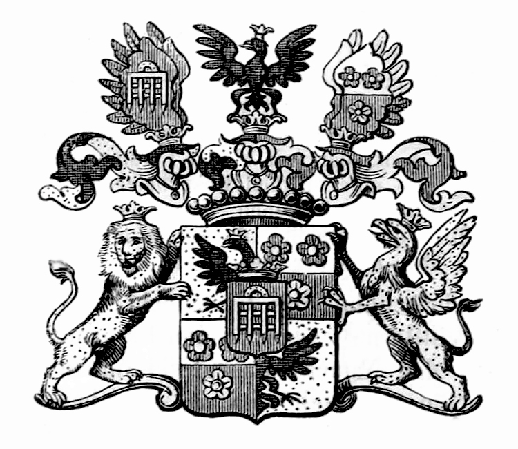 Coat of Arms of Count Gatterburg